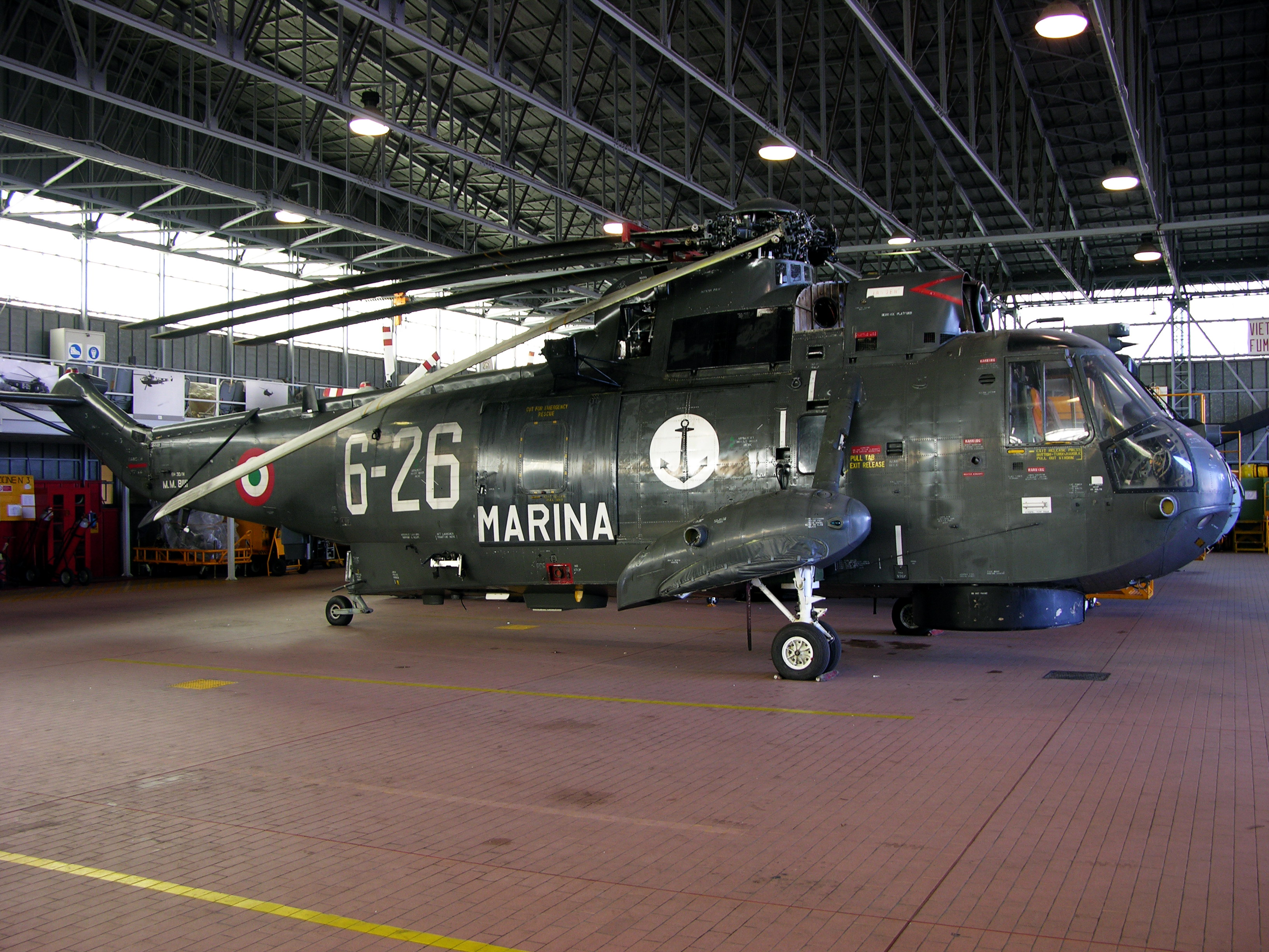 Italian Navy Sea King of Catania Naval Air Station. The older, High Visibility colour scheme on this SH-3D